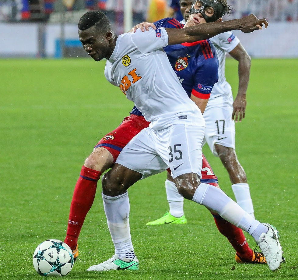 Sékou Sanogo with Young Boys in a UEFA Champions League game against CSKA Moscow.